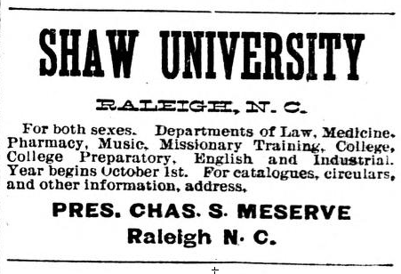 Newspaper advertisement for Shaw University, 1900.